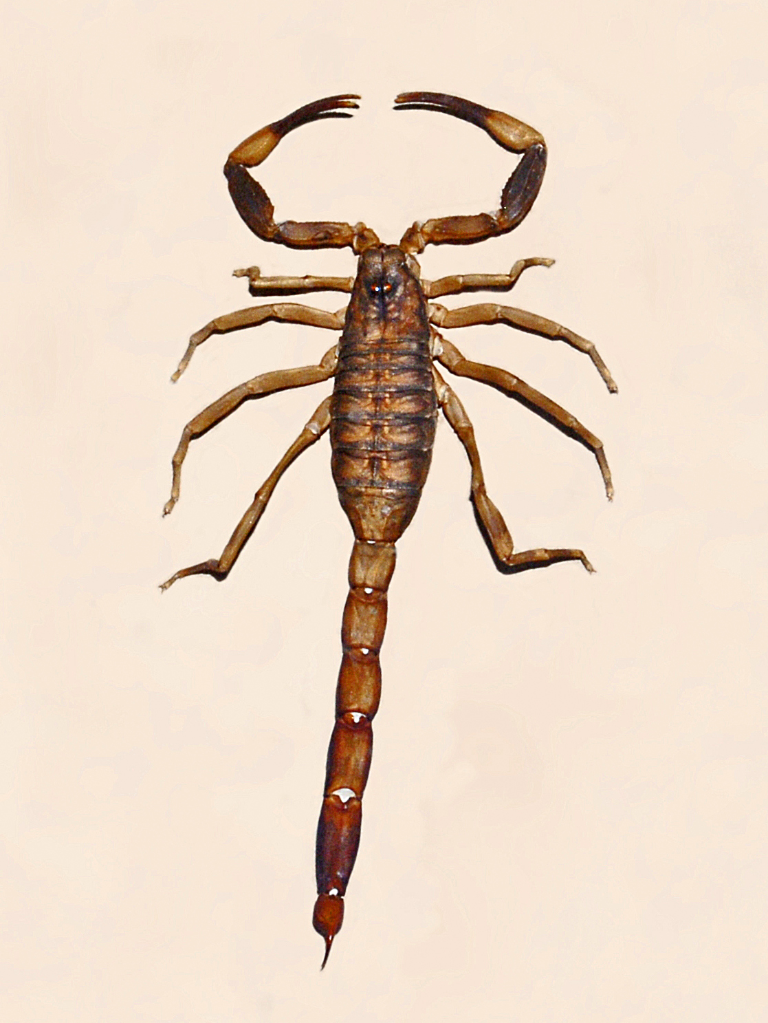 Babycurus buettneri from the Republic of the Congo. Museum specimen